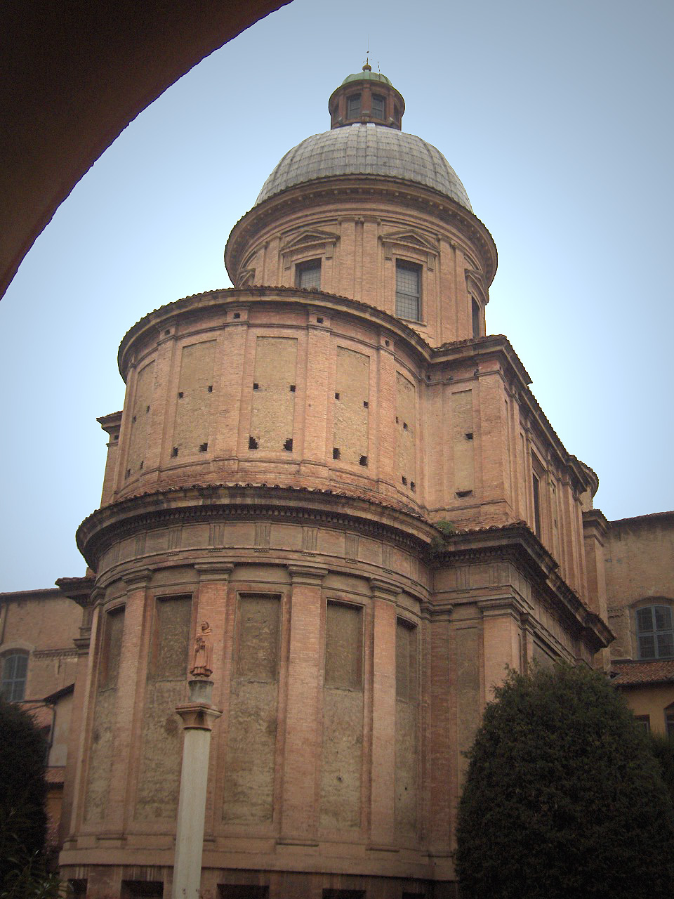 view on the exterior of St Dominic's chapel, seen from the monastery garden; Basilica of Saint Dominic, Bologna, Italy